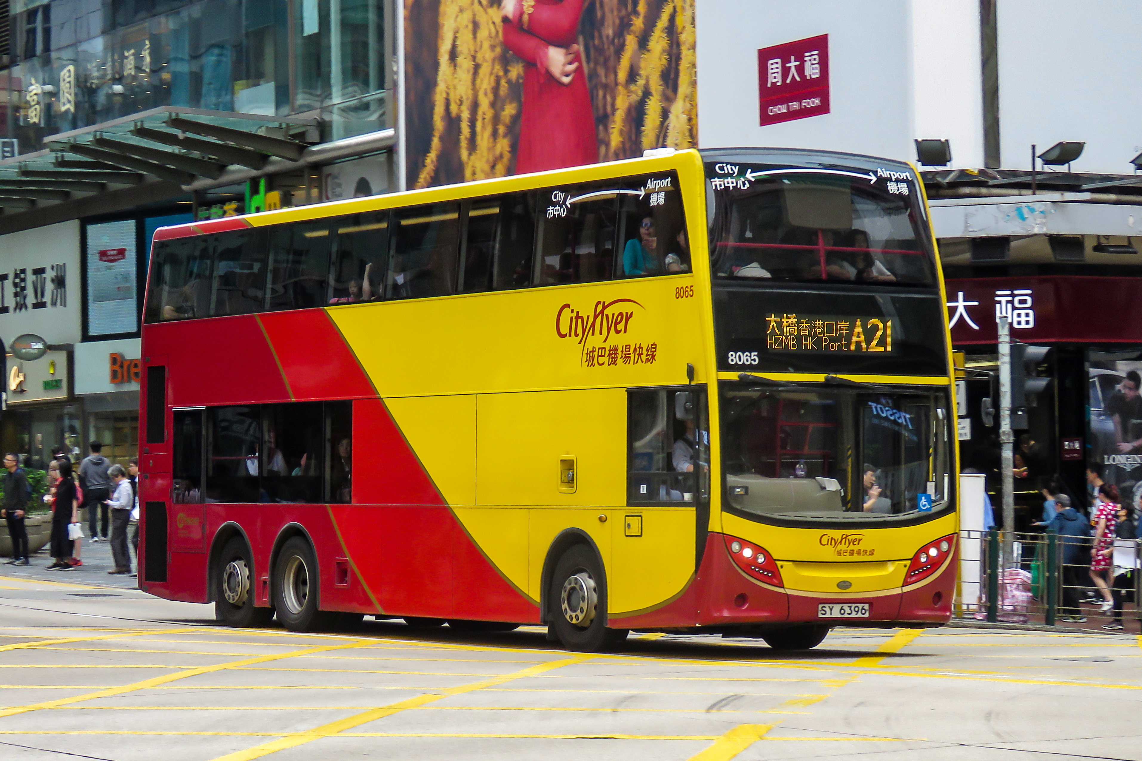 The last 12m Flyer.